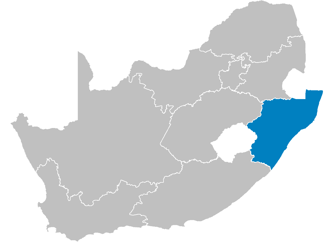 Map of South Africa showing the KwaZulu-Natal province after the 12th amendment of the constitution in December 2005.